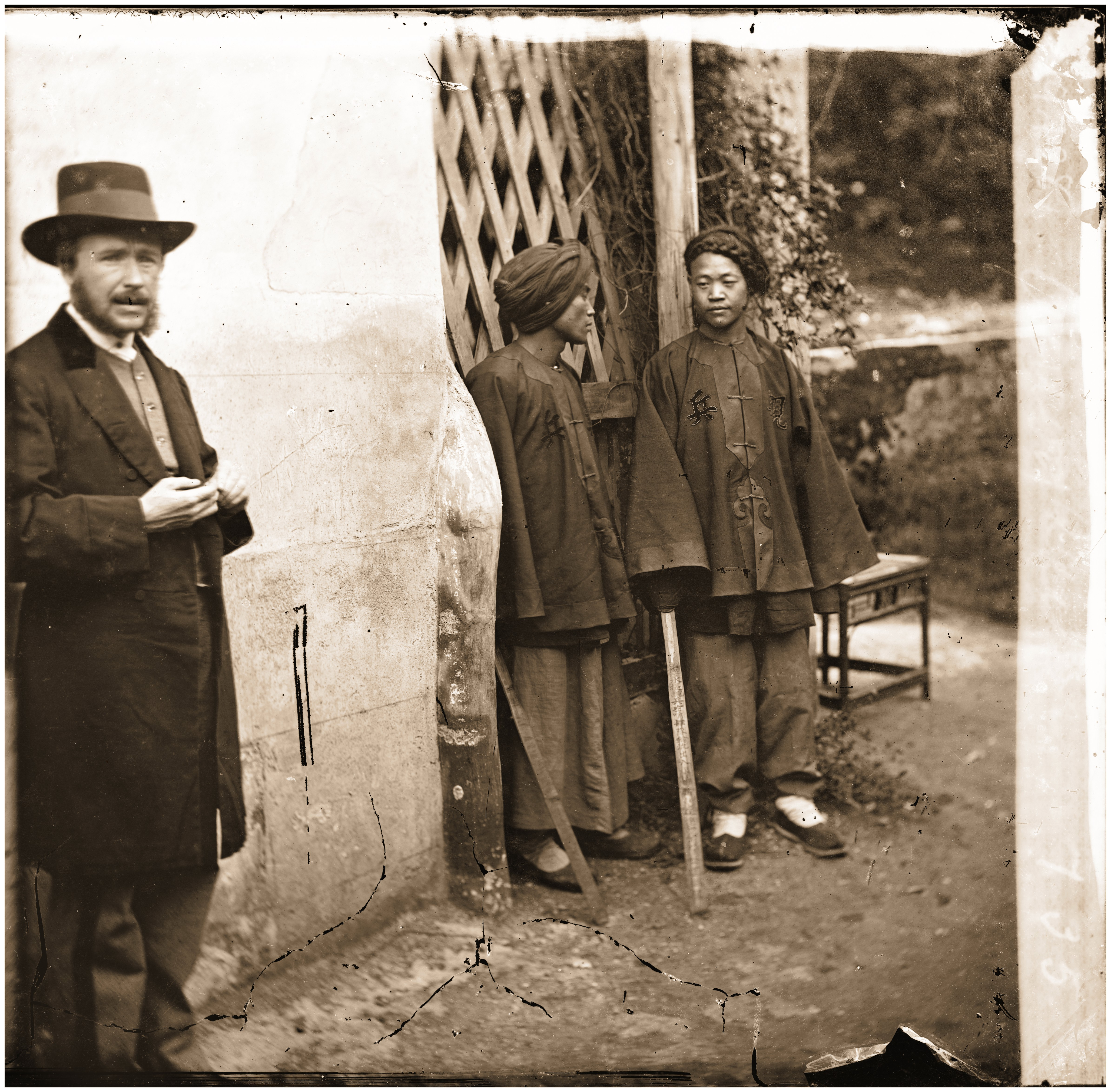 Amoy, Fukien province, China: two Manchu soldiers with John Thomson. Photograph by John Thomson, 1871. Iconographic Collections Keywords: J. Thomson